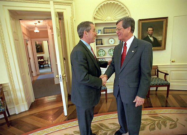 George W. Bush in the Oval Office in 2001. Through the open door, one can see the entrance to the private study (on left) and at far end the presidential dining room.